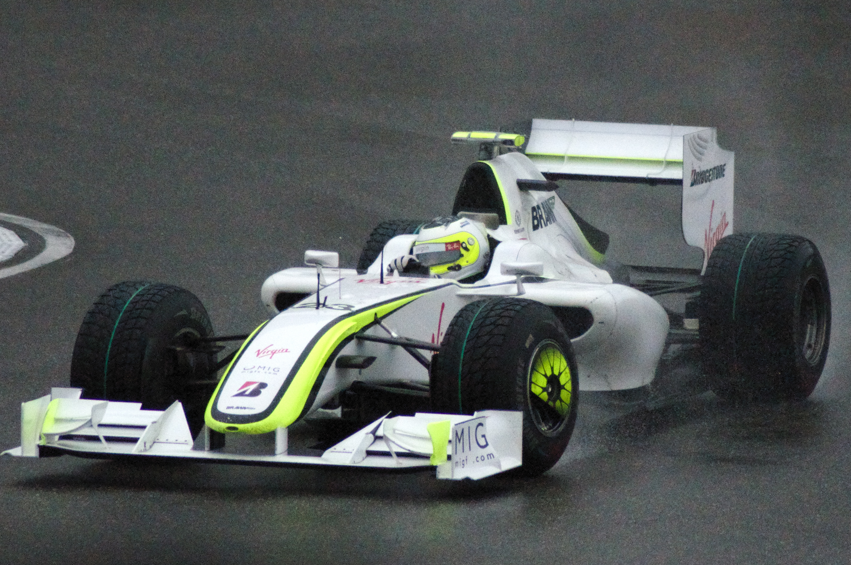 Rubens Barrichello driving for Brawn GP at the 2009 Chinese Grand Prix.